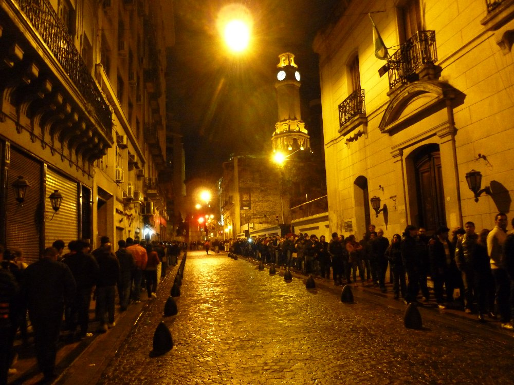 Funeral of Gustavo Cerati, 4 sep 2014, Legislatura Buenos Aires City